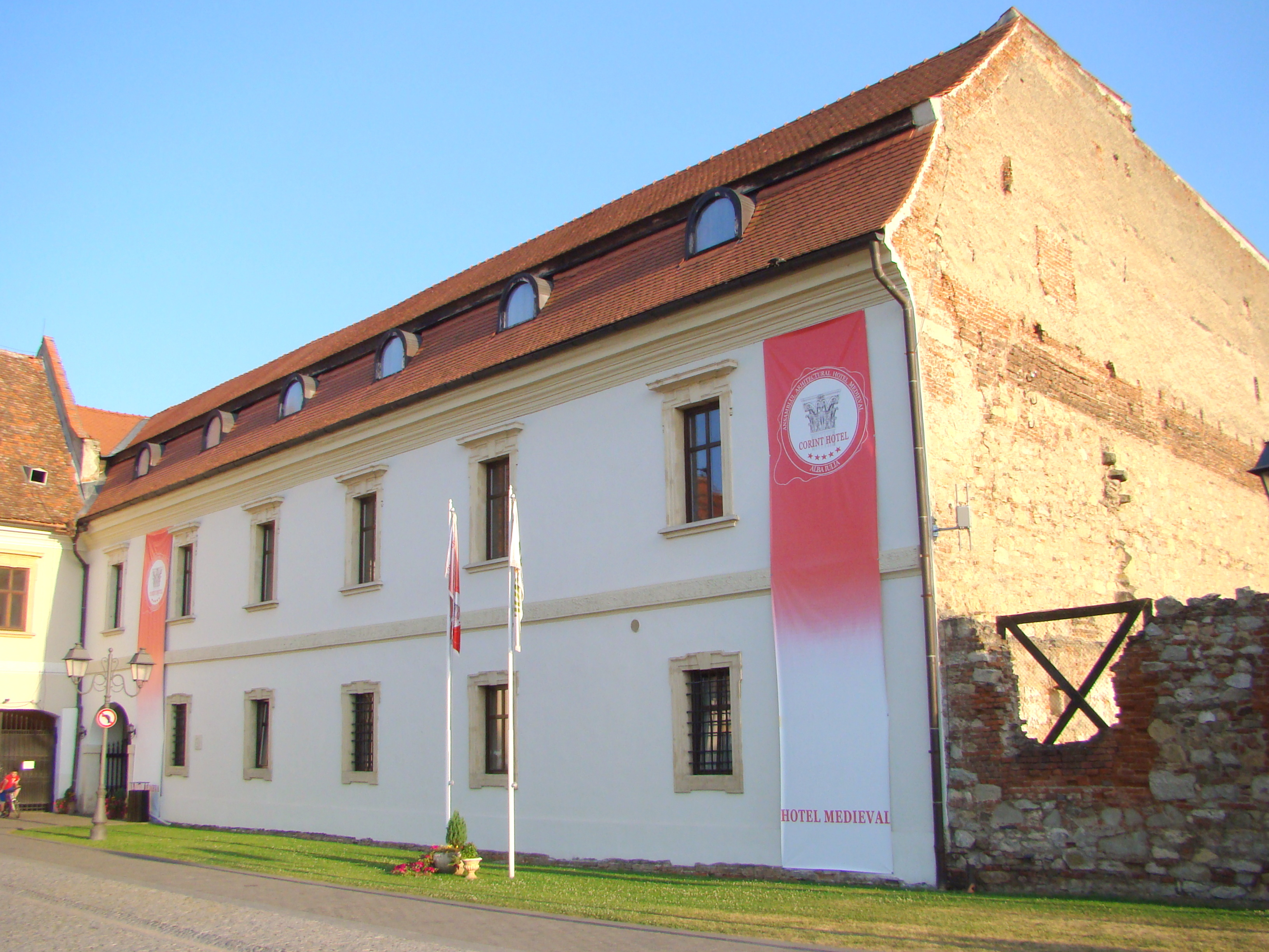 House, historic monument, Militari street, number 2, Alba Iulia, Alba county, Romania